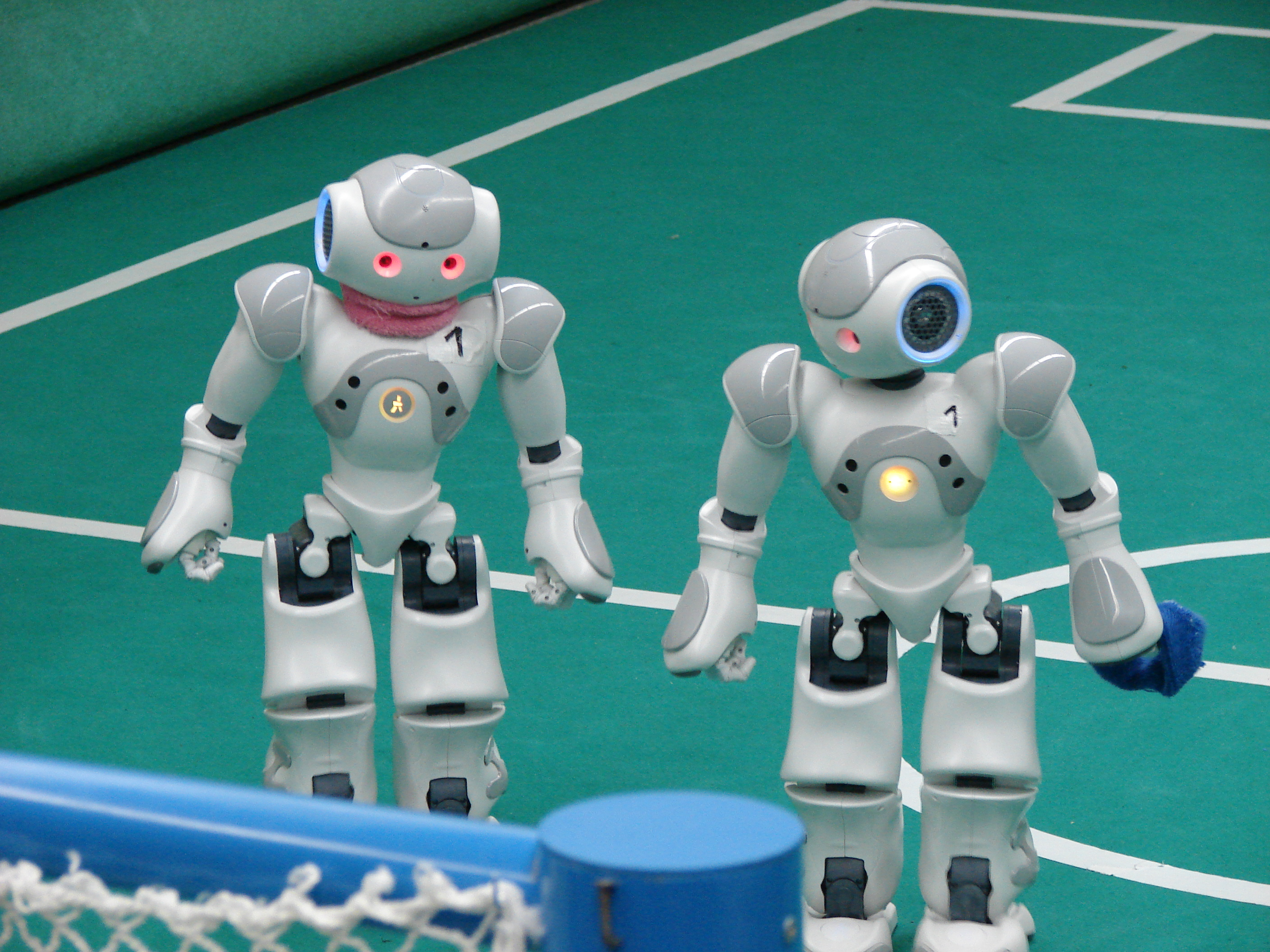 HTWK Leipzig - Nao-Team